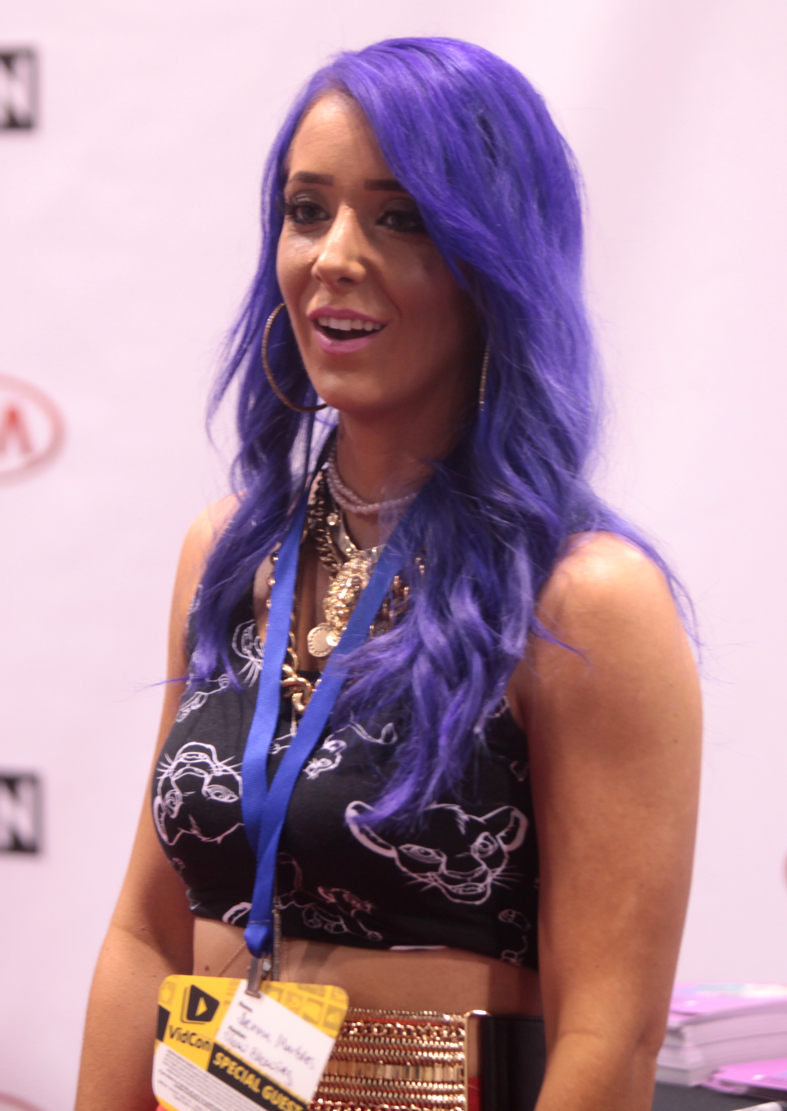 Jenna Marbles speaking at the 2014 VidCon on June 28, 2014.